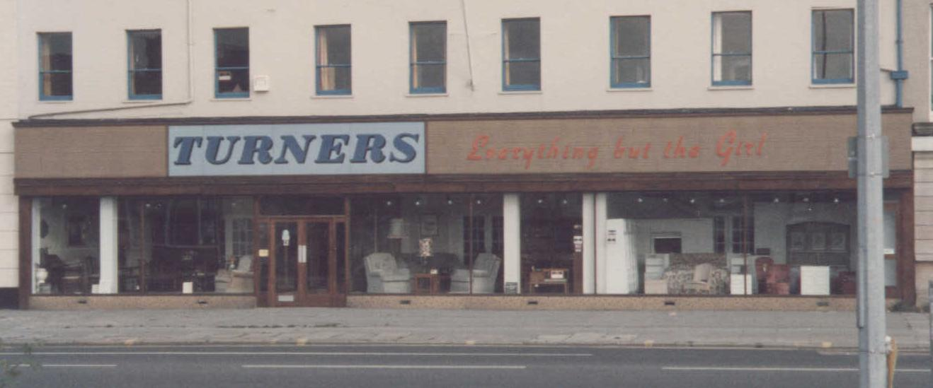 Shop-front of Turners, Beverley Road, Kingston upon Hull, showing "Everything but the Girl" slogan, taken by Nick Cooper November 1985.